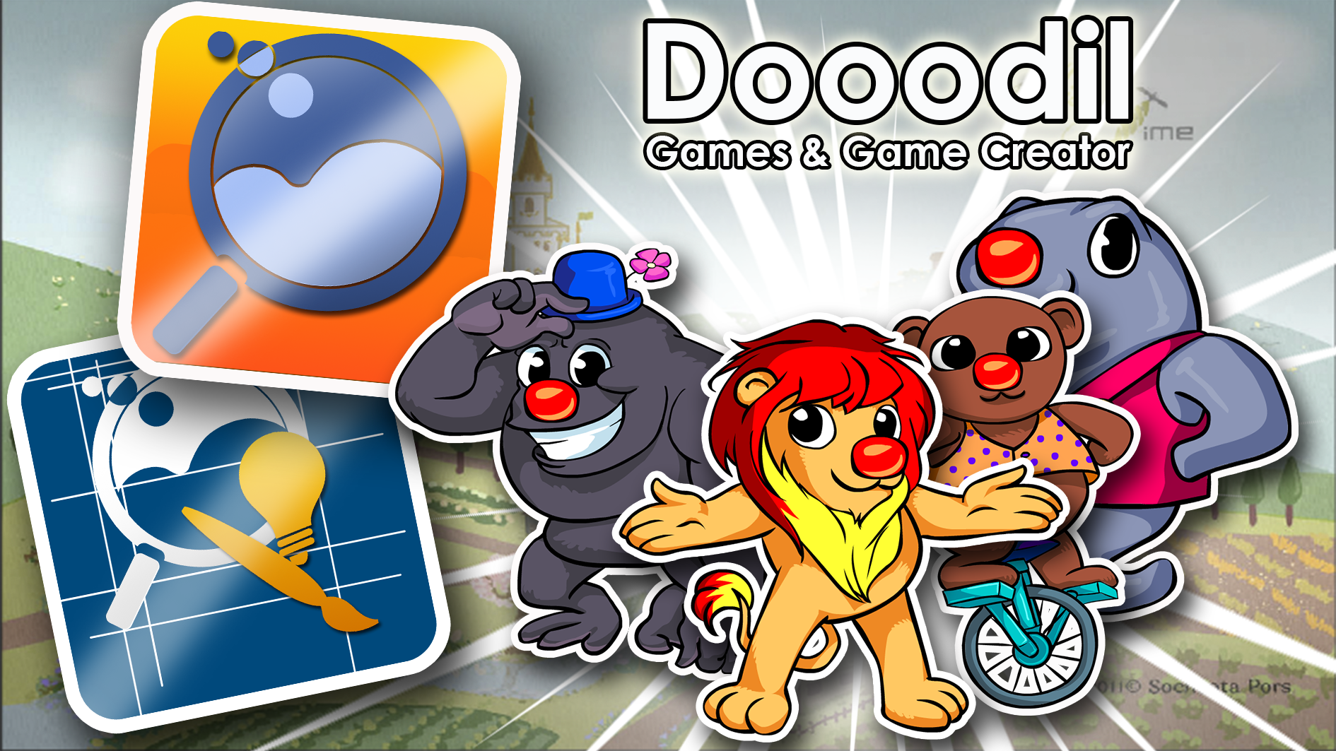 Image Logo for Dooodil Platform